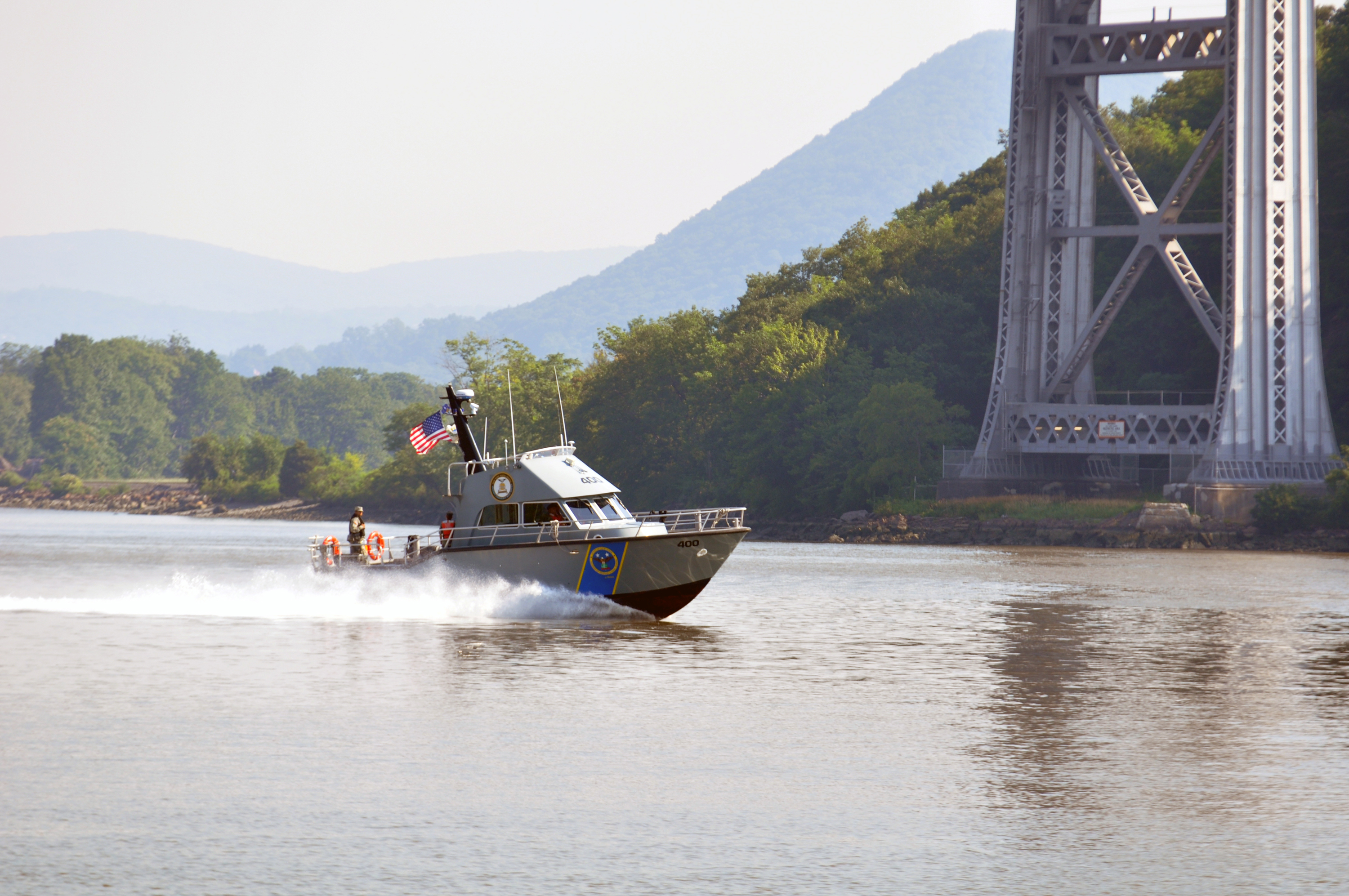 The following is the author's description of the photograph quoted directly from the photograph's Flickr page."The New York State Naval Militia's Patrol Boat 400 conducts a random anti-terrorism measures program patrol on the Hudson River off the Entergy Indian Point Energy Center in Buchanan, N.Y., on Aug. 26, 2009, with members of the New York National Guard's Joint Task Force Empire Shield, which has been continuously providing military support to civilian authorities since the terrorist attacks of Sept. 11, 2001. (U.S. Army photo by Staff Sgt. Jim Greenhill) (Released)"